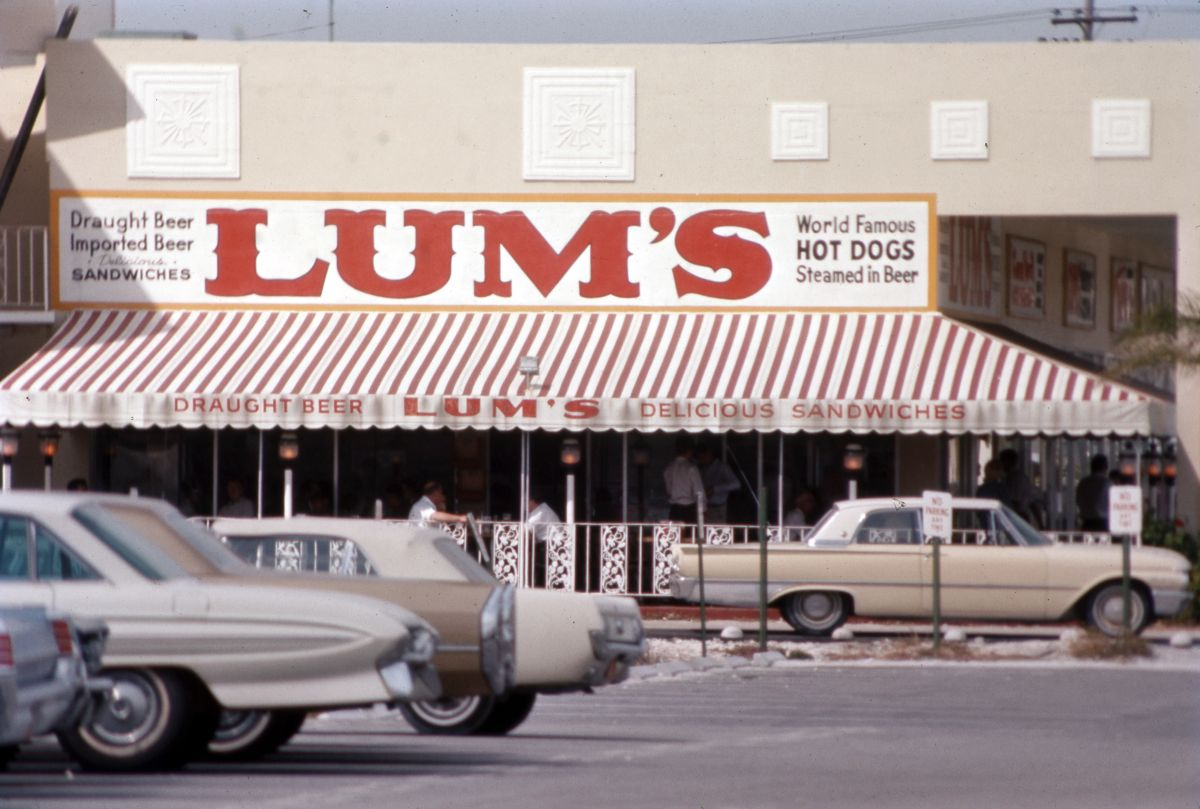 Lum's hot dog restaurant: Fort Lauderdale, Florida Author:Erickson, Roy. Photographed in February 1966. Physical descrip: 1 slide: col. Series Title: (Print Collections. N2006-13, Roy Erickson collection.) General note: The photographer, Roy Erickson, was a professional photographer in the Ft. Lauderdale area and was affiliated with the Best of Broward magazine for over 10 years. Repository: State Library and Archives of Florida , 500 S. Bronough St., Tallahassee, FL 32399-0250 USA. Contact: 850.245.6700. Persistent URL